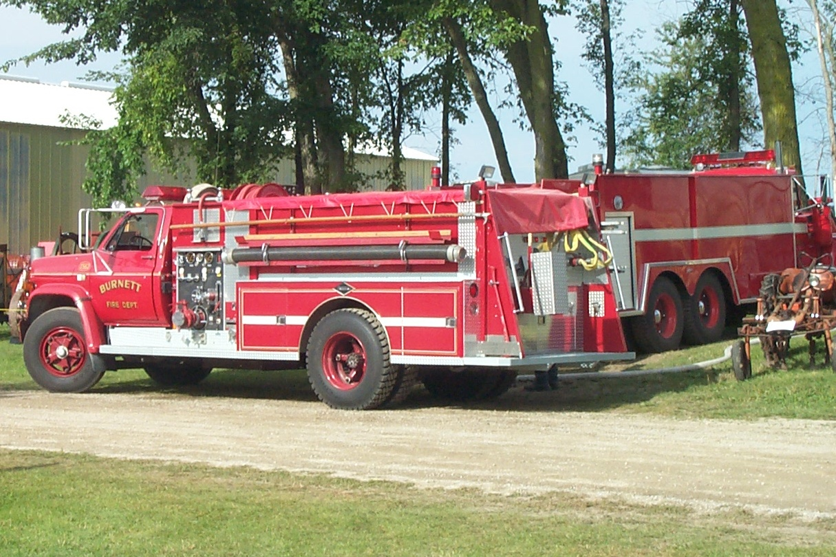 Town_of_Burnett_Wisconsin_fire_trucks